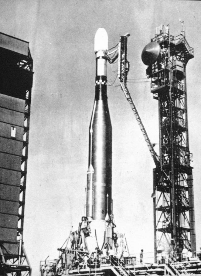 Atlas Agena D with Mariner 4 on the launchpad, at Cape Canaveral.